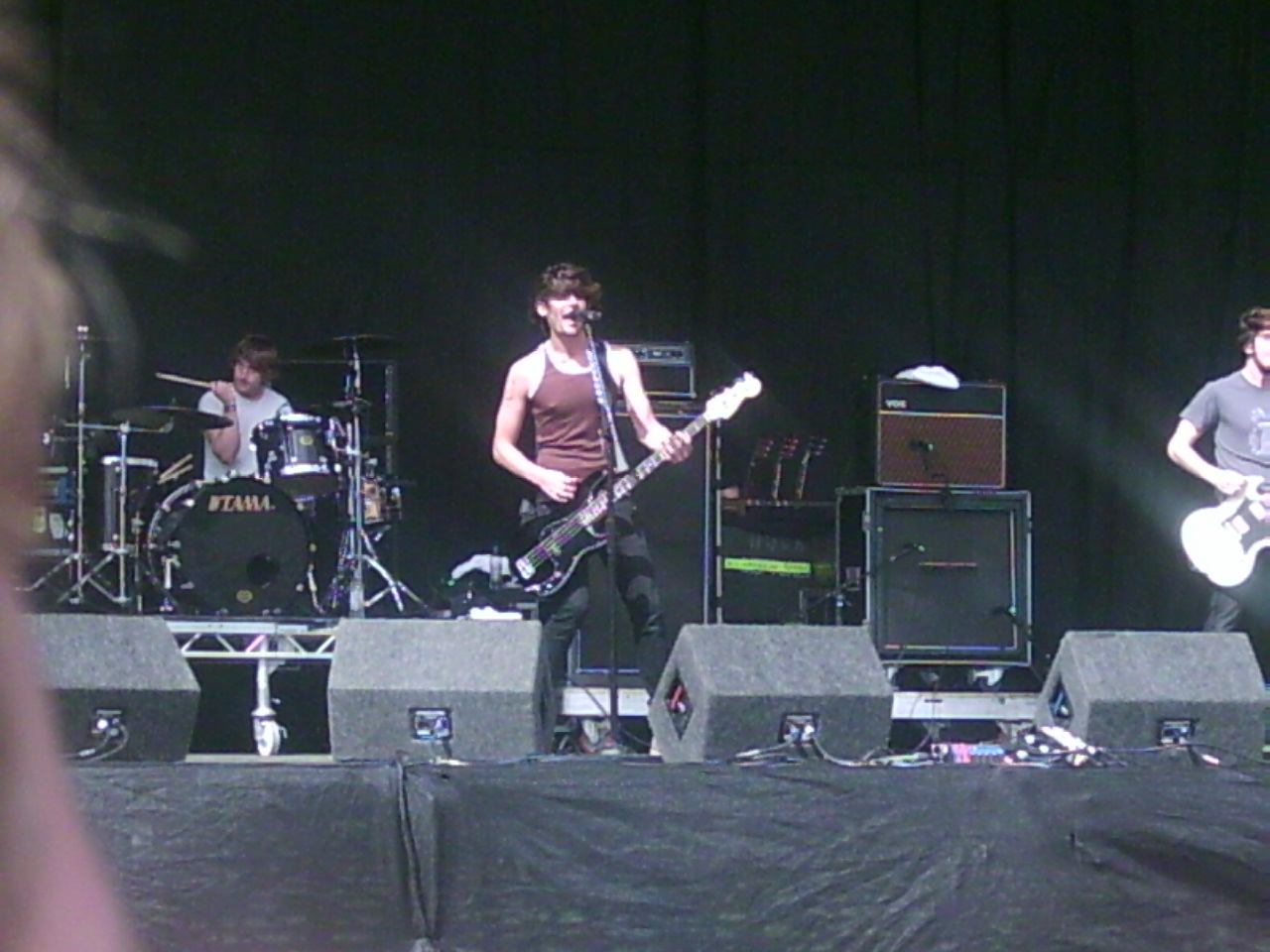 The All-American Rejects, Leeds Festival, 2005